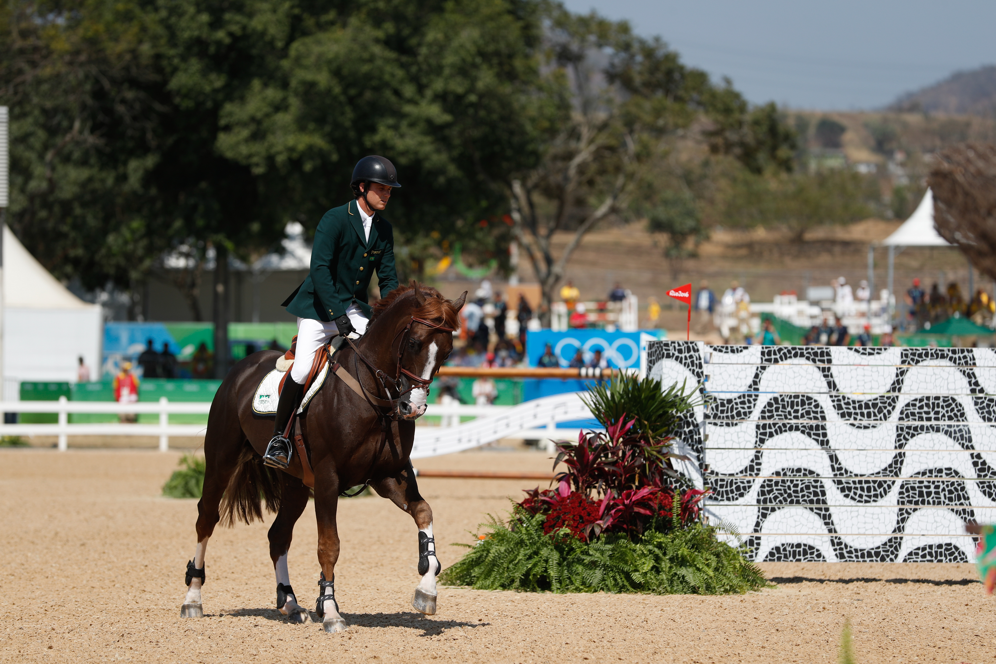 Rio de Janeiro - Cavaleiro Pedro Veniss na apresentação de saltos do hipismo em que a equipe brasileira terminou na 4ª colocação geral nos Jogos Olímpicos Rio 2016, em Deodoro . ( Fernando Frazão/Agência Brasil)